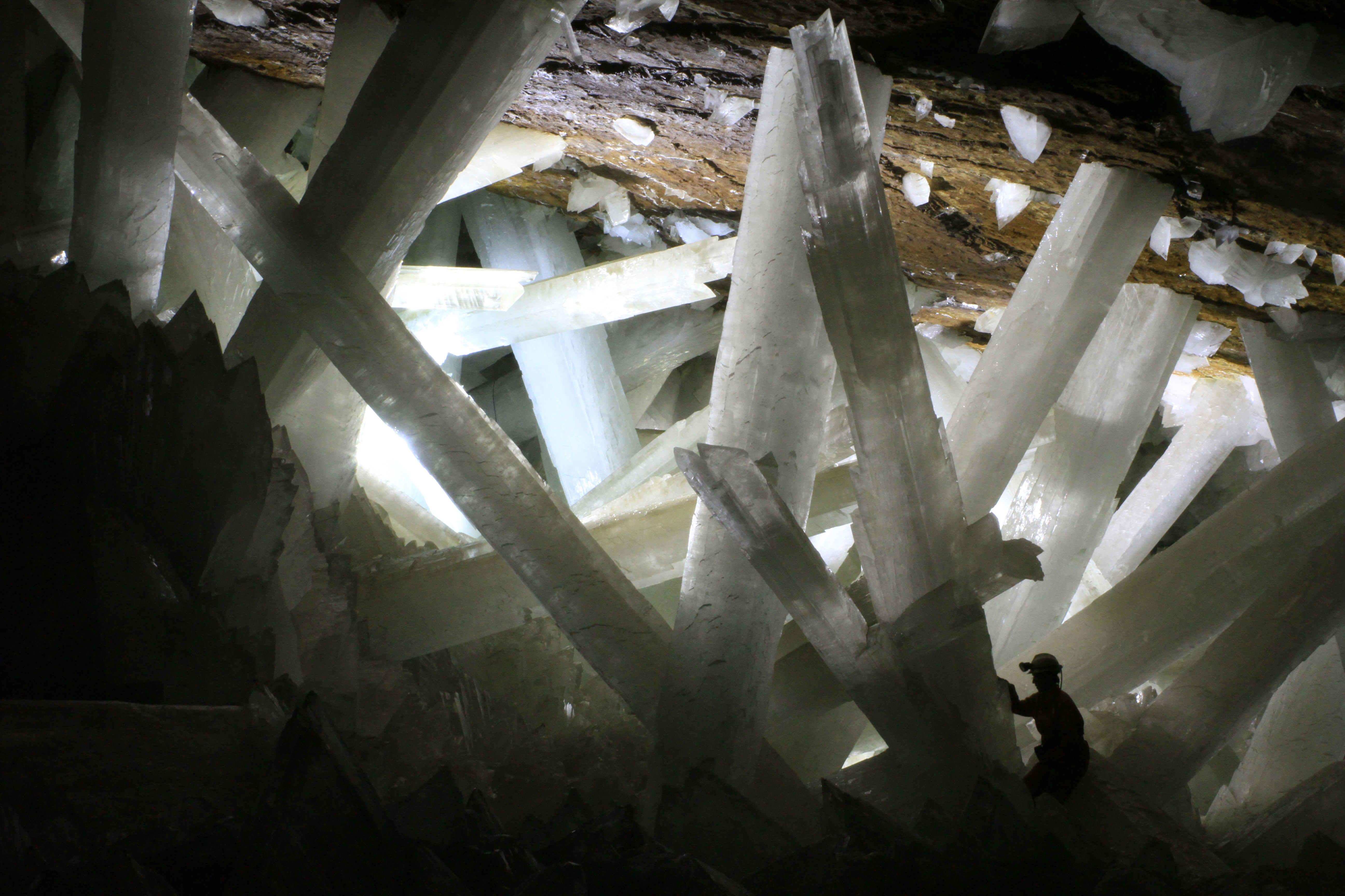 Gypsum crystals of the Naica cave. Note person for scale. Author: Alexander Van Driessche